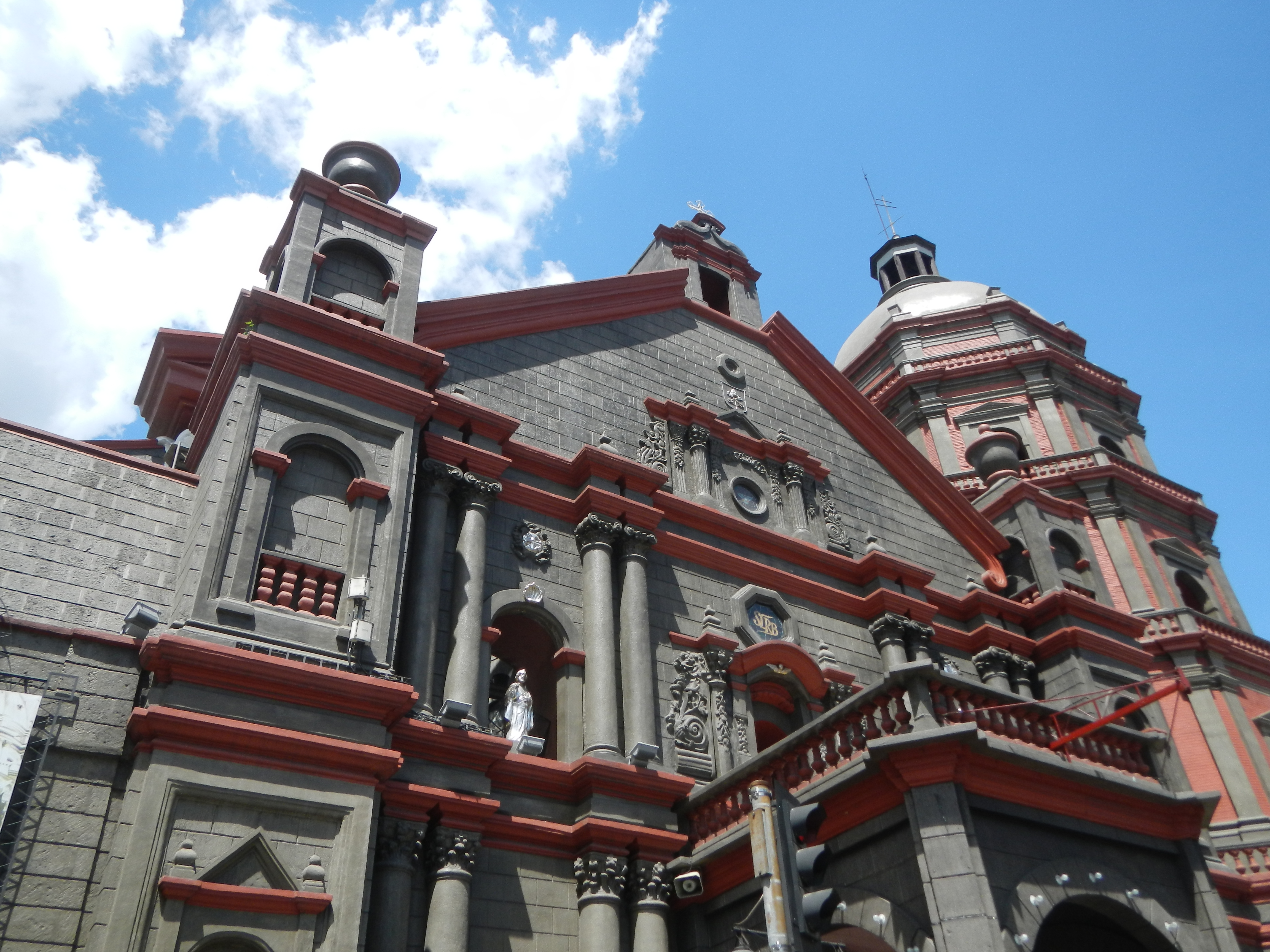 Legislative districts of Manila Barangays 288 Zone 27, & 295 and 296, Zone 28, 3rd District, Binondo, Manila, City of Manila Norberto Ty (Condesa) Street to Ongpin Street, List of Cultural Properties of the Philippines in Metro Manila, Binondo, Plaza San Lorenzo Ruiz, with the facade of the Minor Basilica of Saint Lorenzo Ruiz or the Binondo Church Filipino Chinese WWII Martyrs Memorial, San Lorenzo Ruiz Statue.